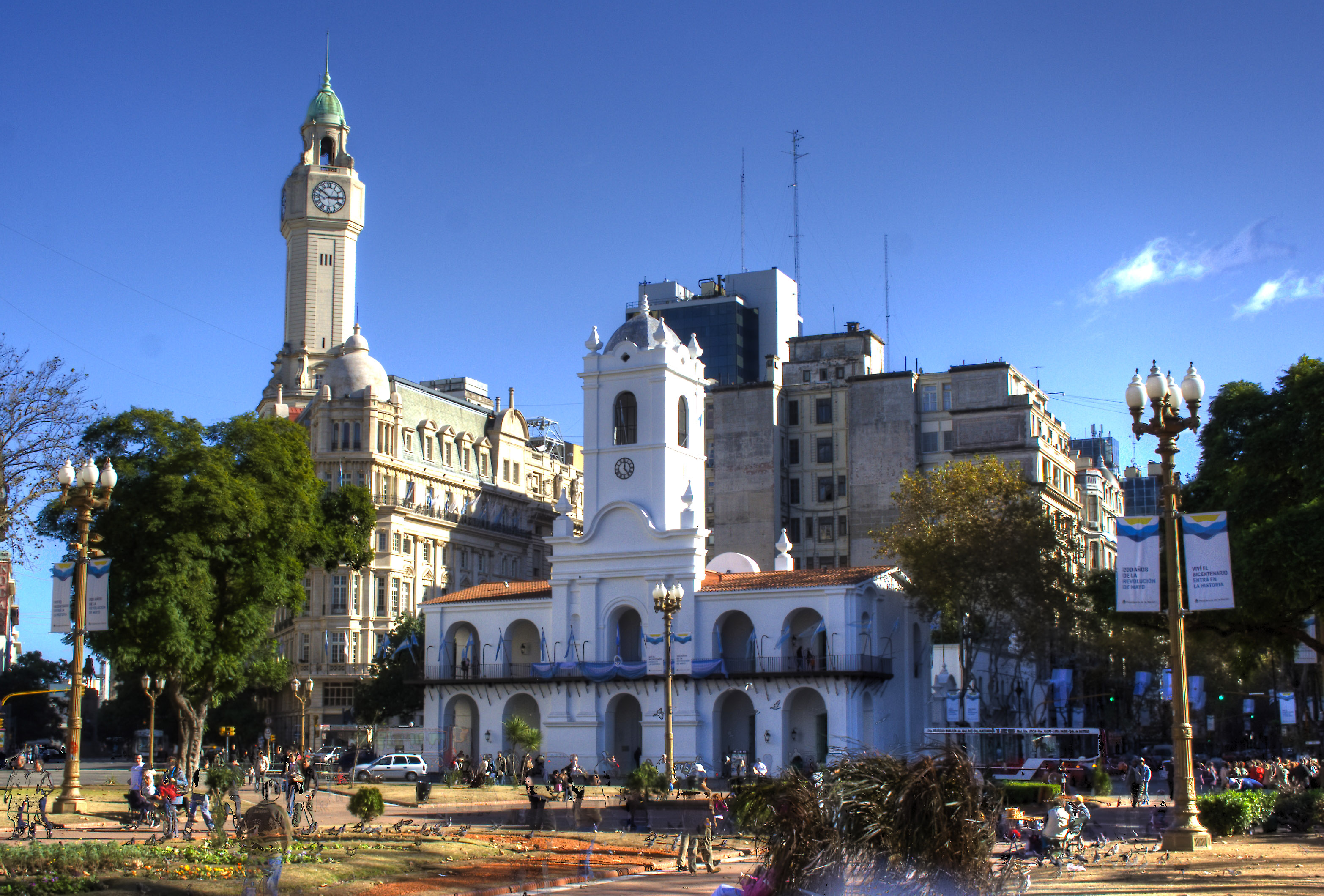 Taken by Herbert Brant on May 26, 2010; The Cabildo of Buenos Aires on the Plaza de Mayo.